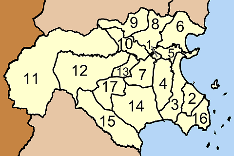 Map of Mueang Chumphon district, Chumphon province, with the communes (tambon) numbered Tha Taphao (ท่าตะเภา) Paknam (ปากน้ำ) Tha Yang (ท่ายาง) Bang Mak (บางหมาก) Na Thung (นาทุ่ง) Na Cha Ang (นาชะอัง) Tak Daet (ตากแดด) Bang Luek (บางลึก) Hat Phan Krai (หาดพันไกร) Wang Phai (วังไผ่) Wang Mai (วังใหม่) Ban Na (บ้านนา) Khun Krathing (ขุนกระทิง) Thung Kha (ทุ่งคา) Wisai Nuea (วิสัยเหนือ) Hat Sai Ri (หาดทรายรี) Tham Sing (ถ้ำสิงห์)